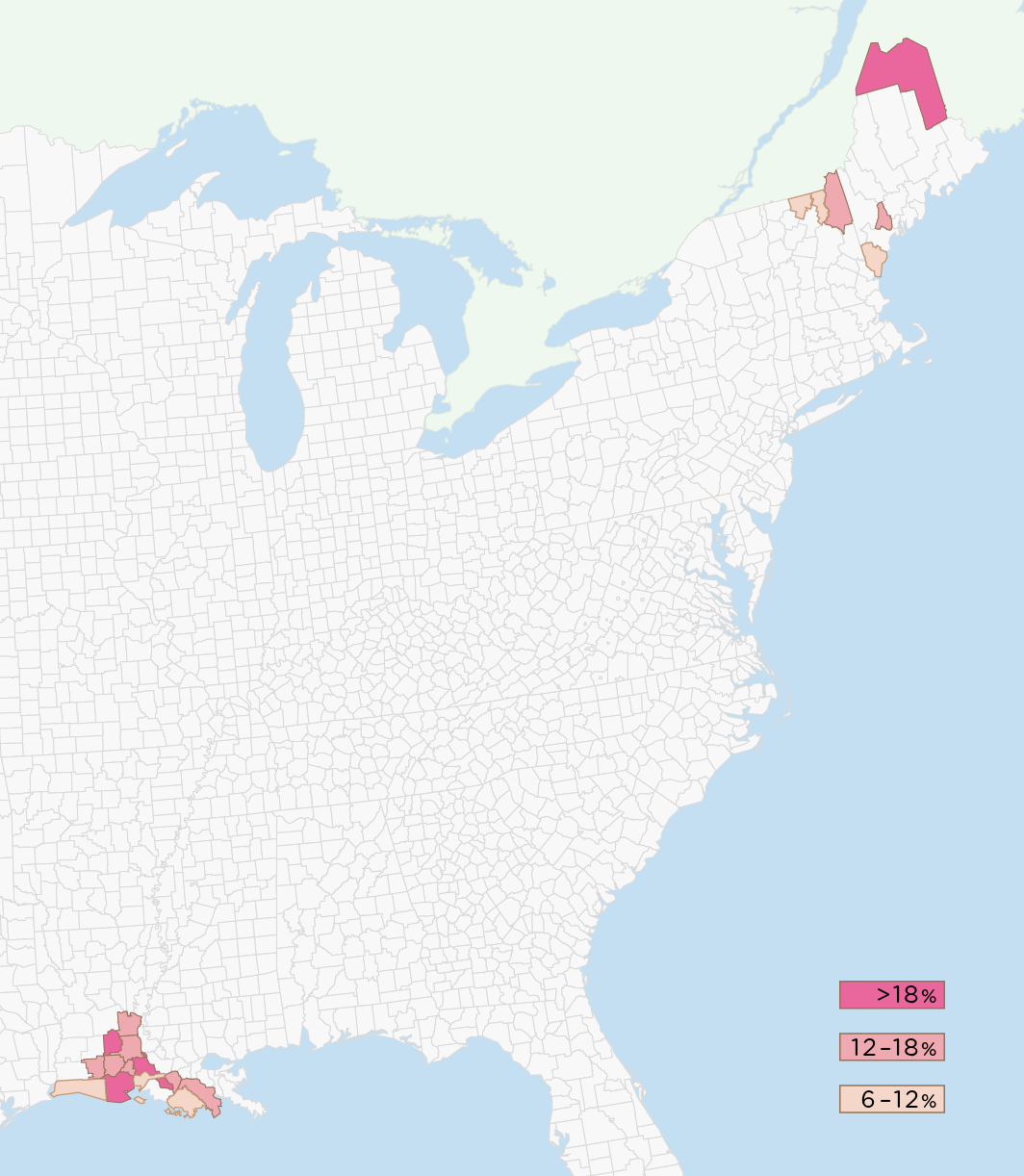 Distribution of French in the United States. 18% Cajun French and French-based creole languages are not included.